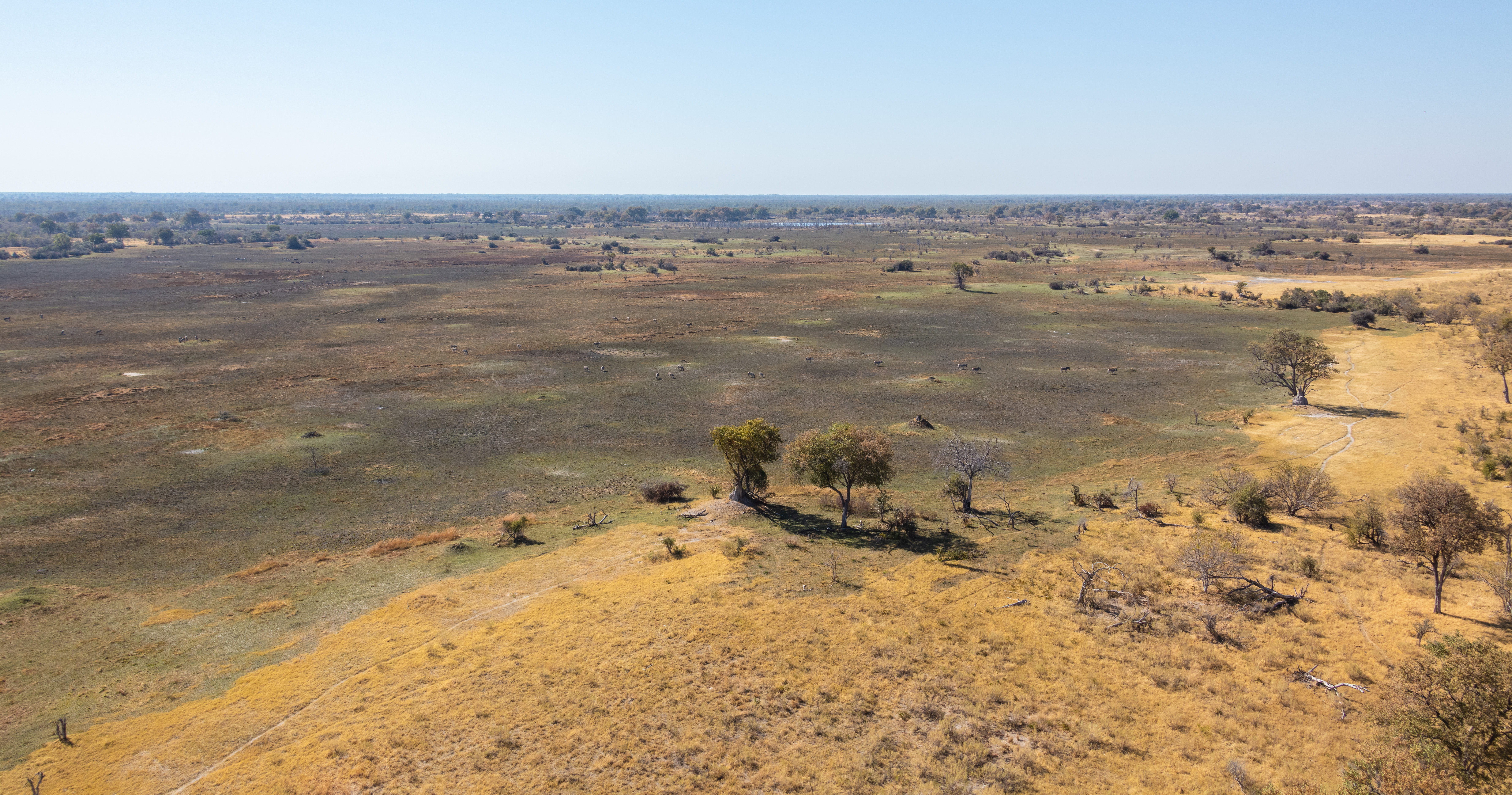 Aerial view of Okavango Delta, Botswana